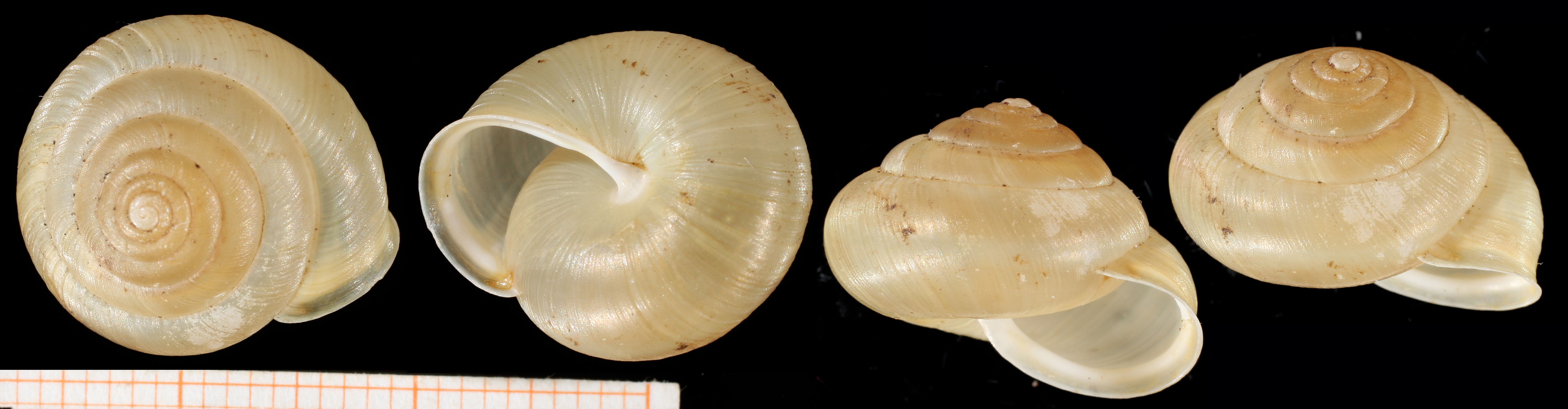 Monachoides vicinus (Rossmässler, 1842), Hygromiidae, Pulmonata, Gastropoda, Slovakia, Lower Tatra, Mostenica Kysla